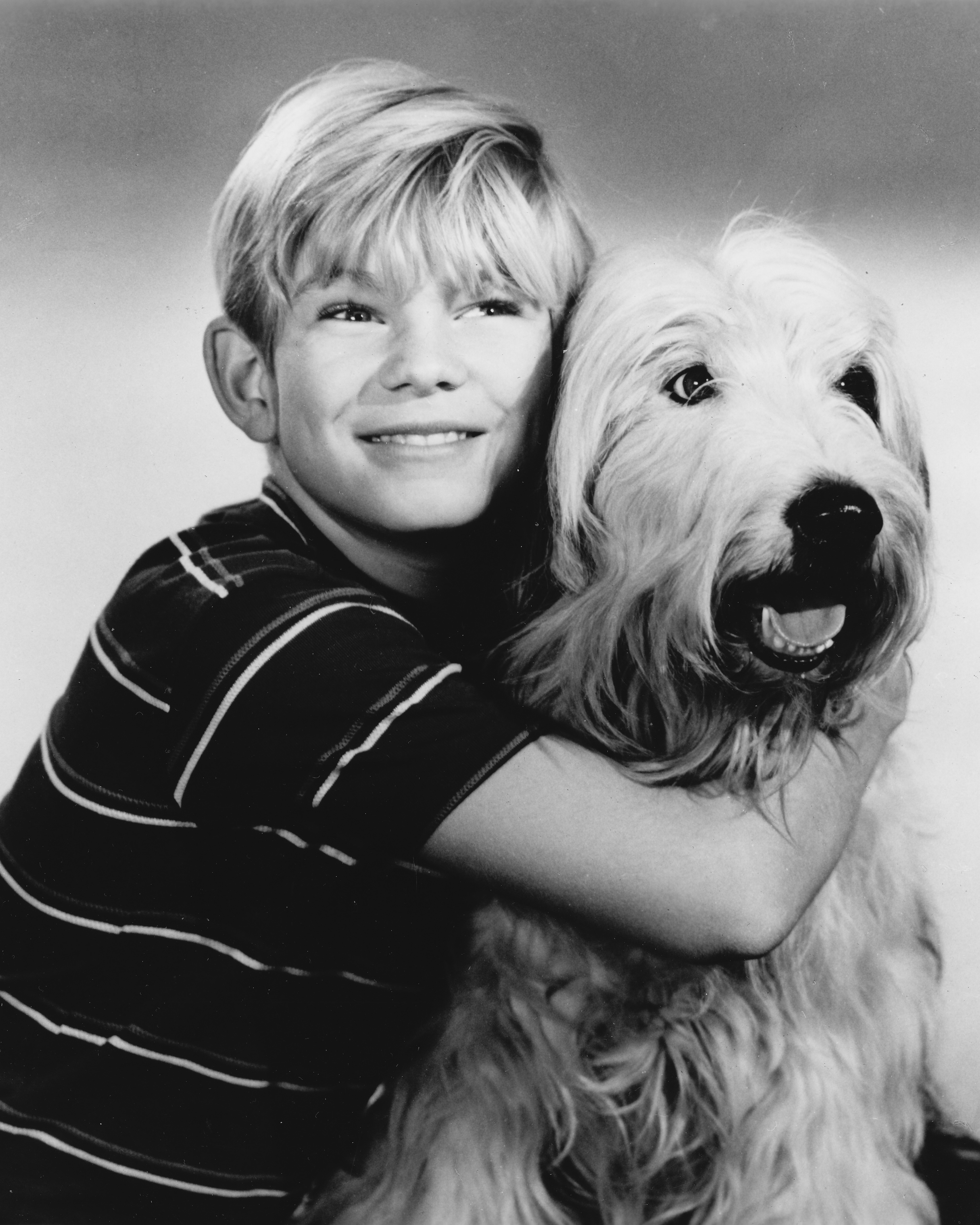 Publicity photo of child actor David Doremus promoting the television series Nanny and the Professor, circa 1970.